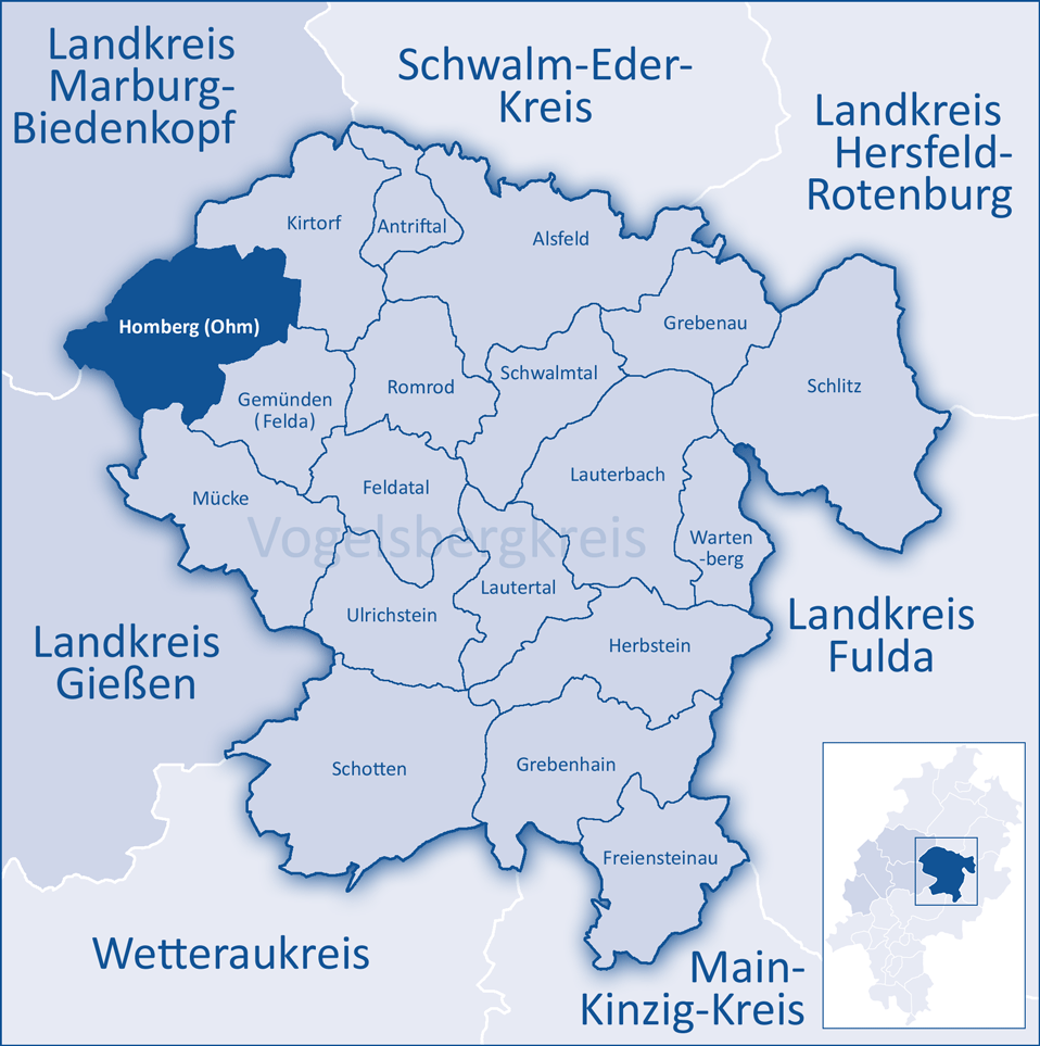 The map shows a district in the area of Vogelsbergkreis